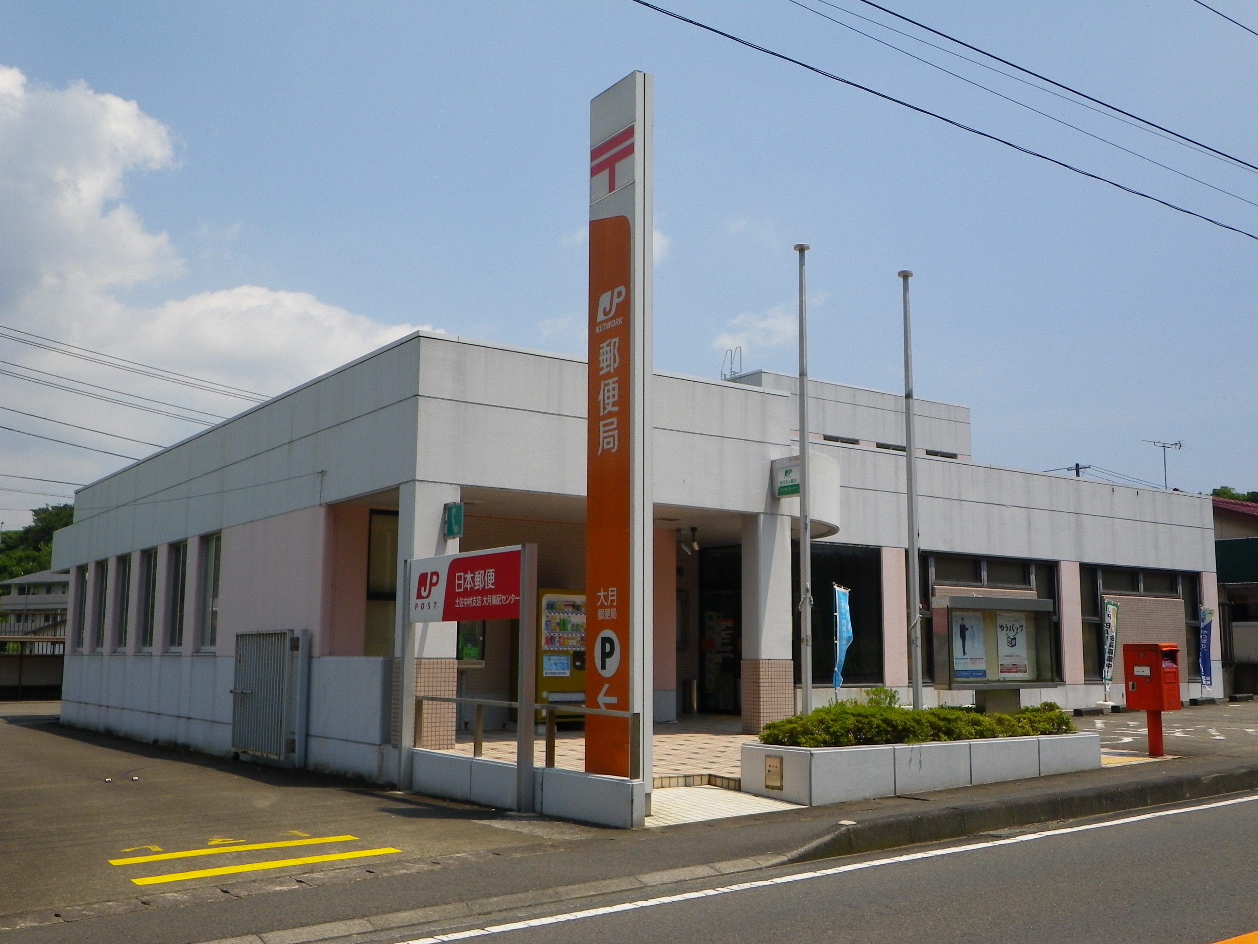 Otsuki post office